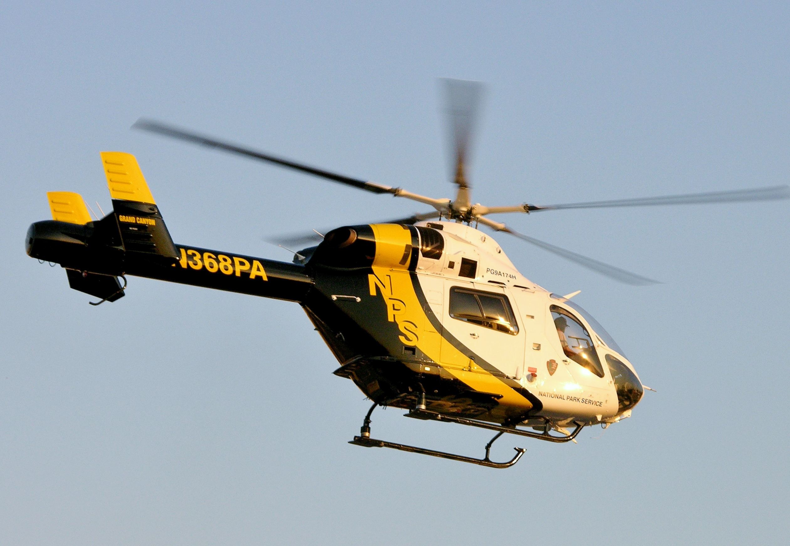 MD900 on contract to the National Park Service, taking off from HAI's Heliexpo 2005 in Los Angeles